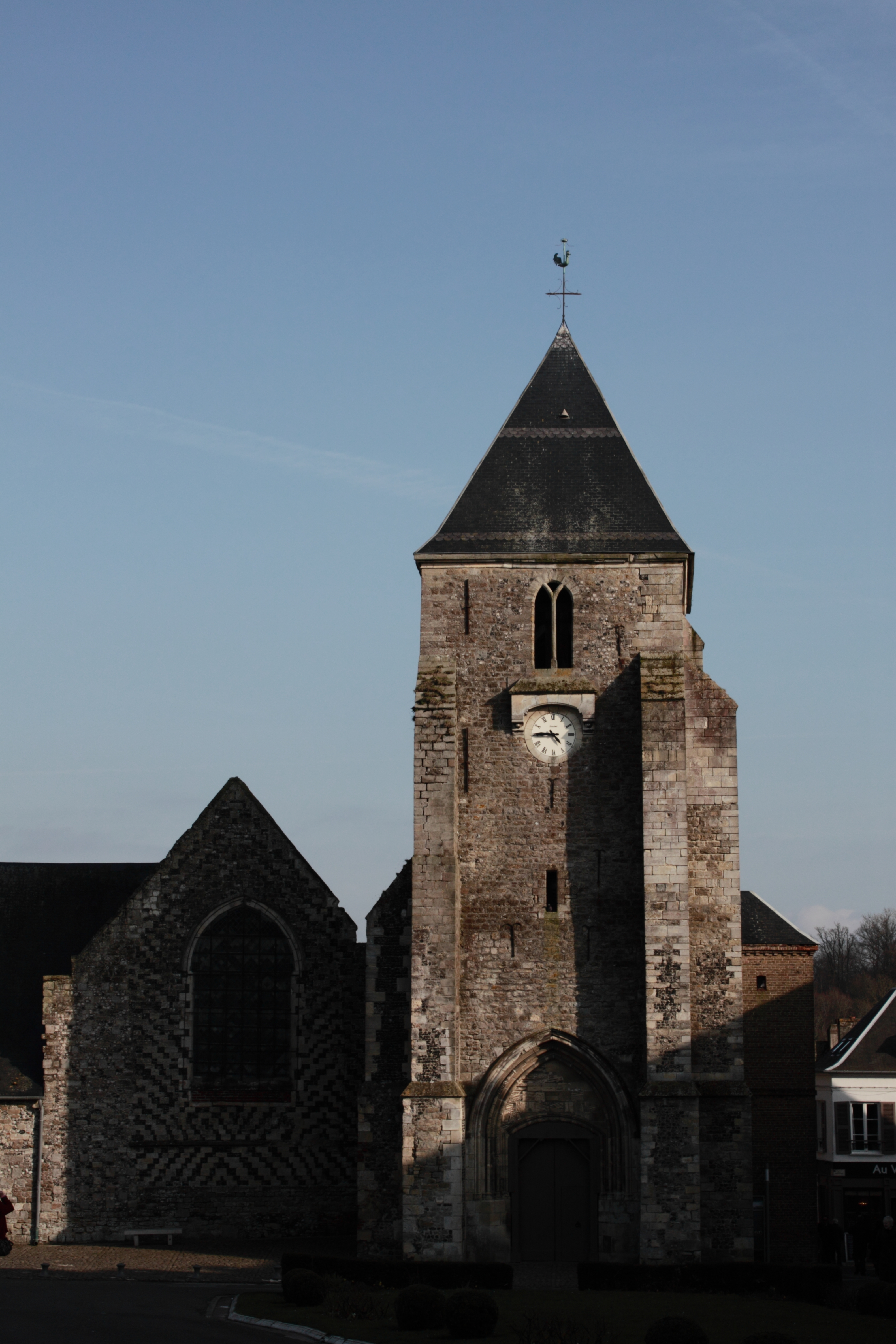 The history of the commune dates back to before the era of the Roman invasion when it was a small settlement inhabited by Gauls. The Roman invasion encouraged the small hamlet to grow into a small village and after the Romans left France the village soon came under the power of the Franks. In 611, the Gualaric monk known as Valery arrived in the area. He installed himself as a hermit on the headland of the site of Leuconaus. His virtue and miracles quickly attracted disciples. These disciples formed a primitive abbey. The saint was then buried there in 622 and became known as Saint Blimont. Clotaire II (King of Neustrie) provided the foundations of the new abbey in 627. The relics of the saint attracted many pilgrims to the abbey which had become known as Saint-Valery. During the 8th and 9th century, the abbey and village were plundered and devastated on several occasions by the Vikings.